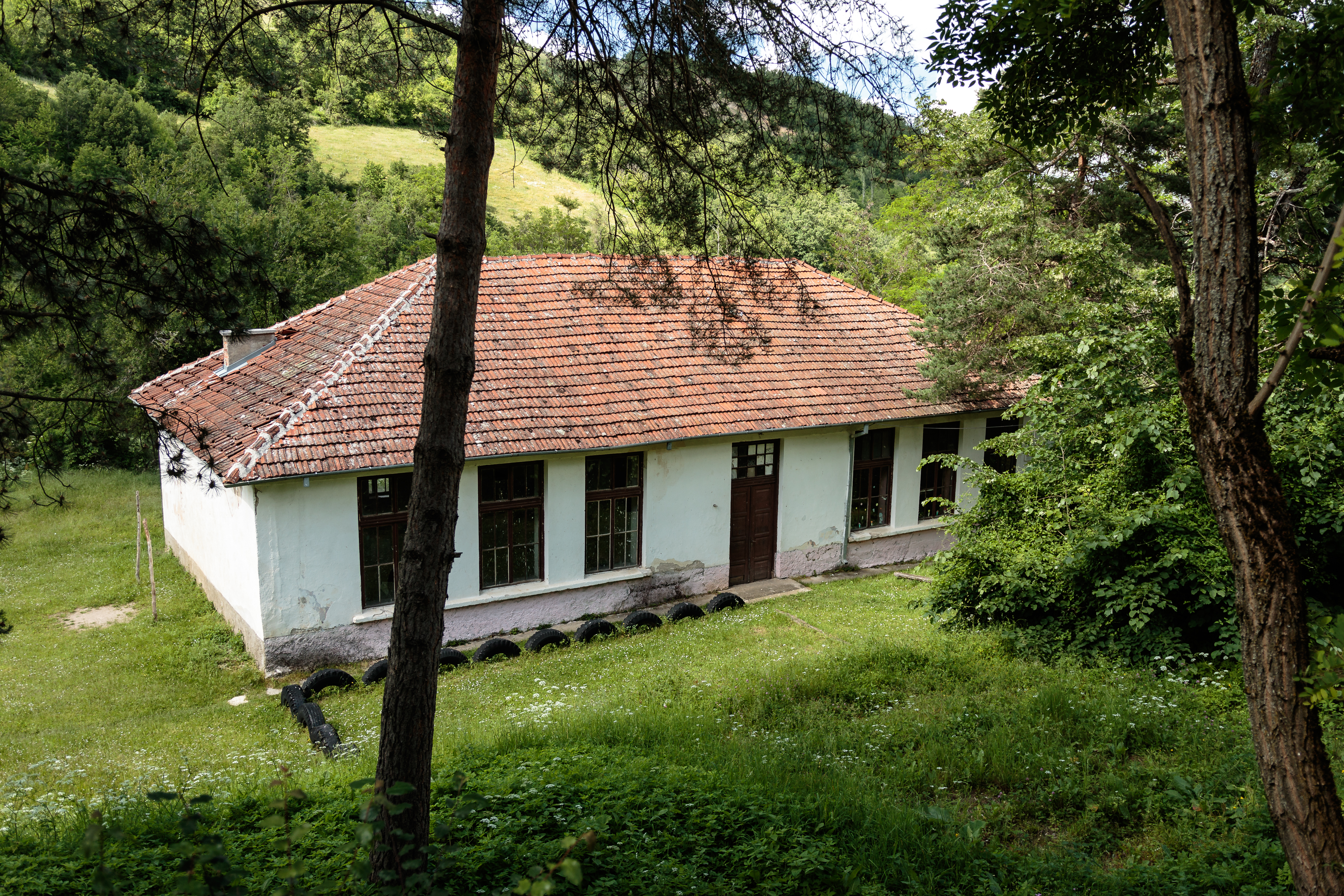 Primary school in the village Virovo